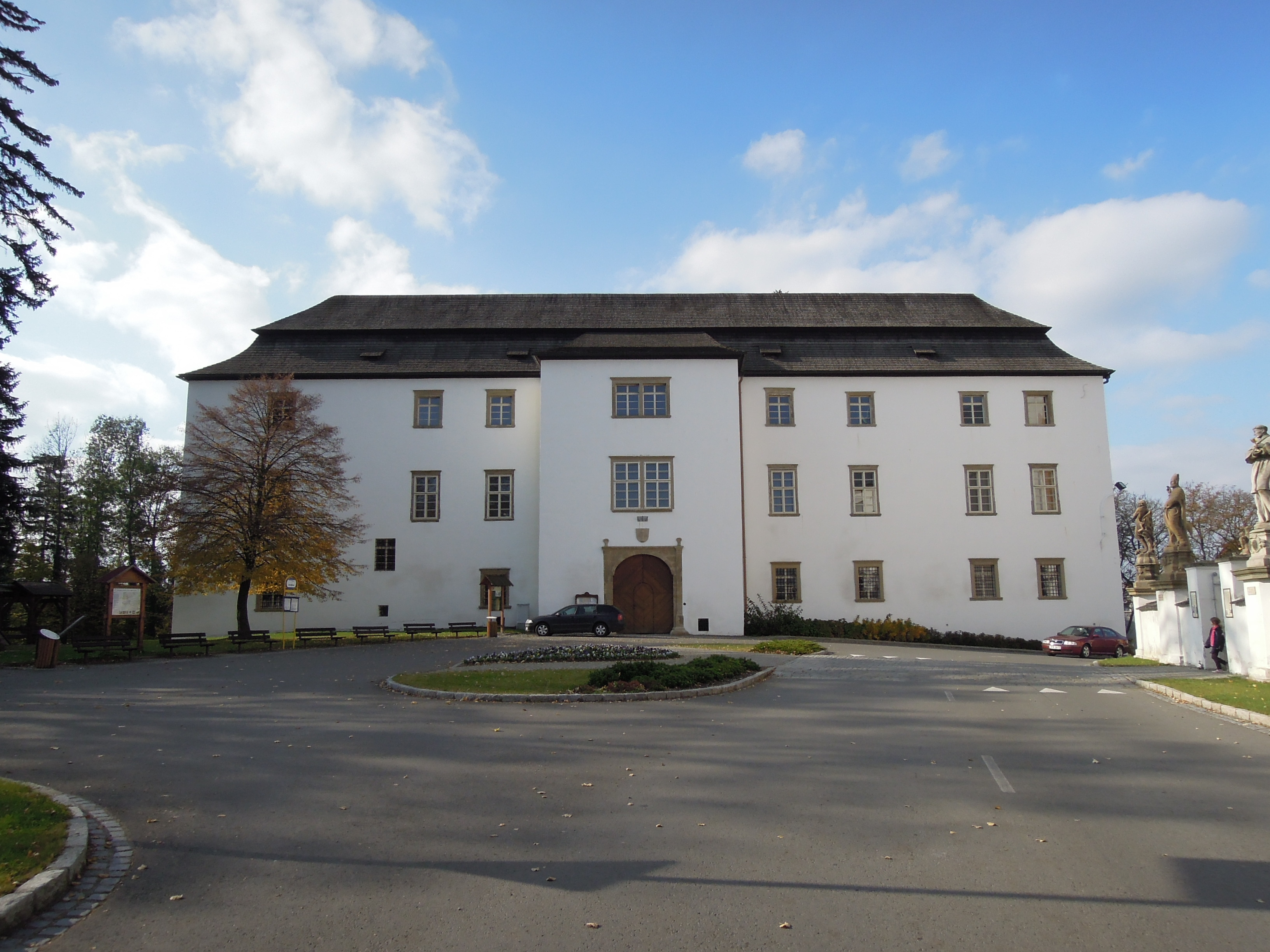 Castle in Hustopeče nad Bečvou, Přerov District, Olomouc Region, Czech Republic